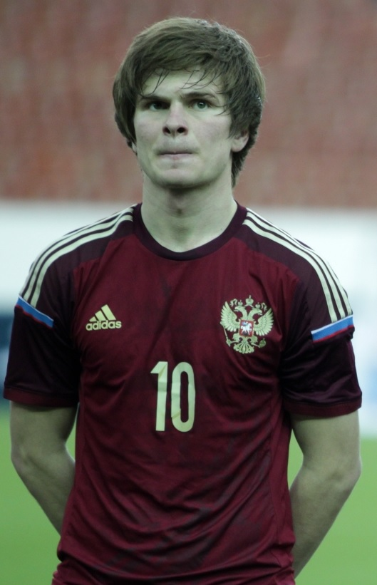 Temuri Bukiya playing for Russia U-21 against Estonia U-21 on 21 January 2016.